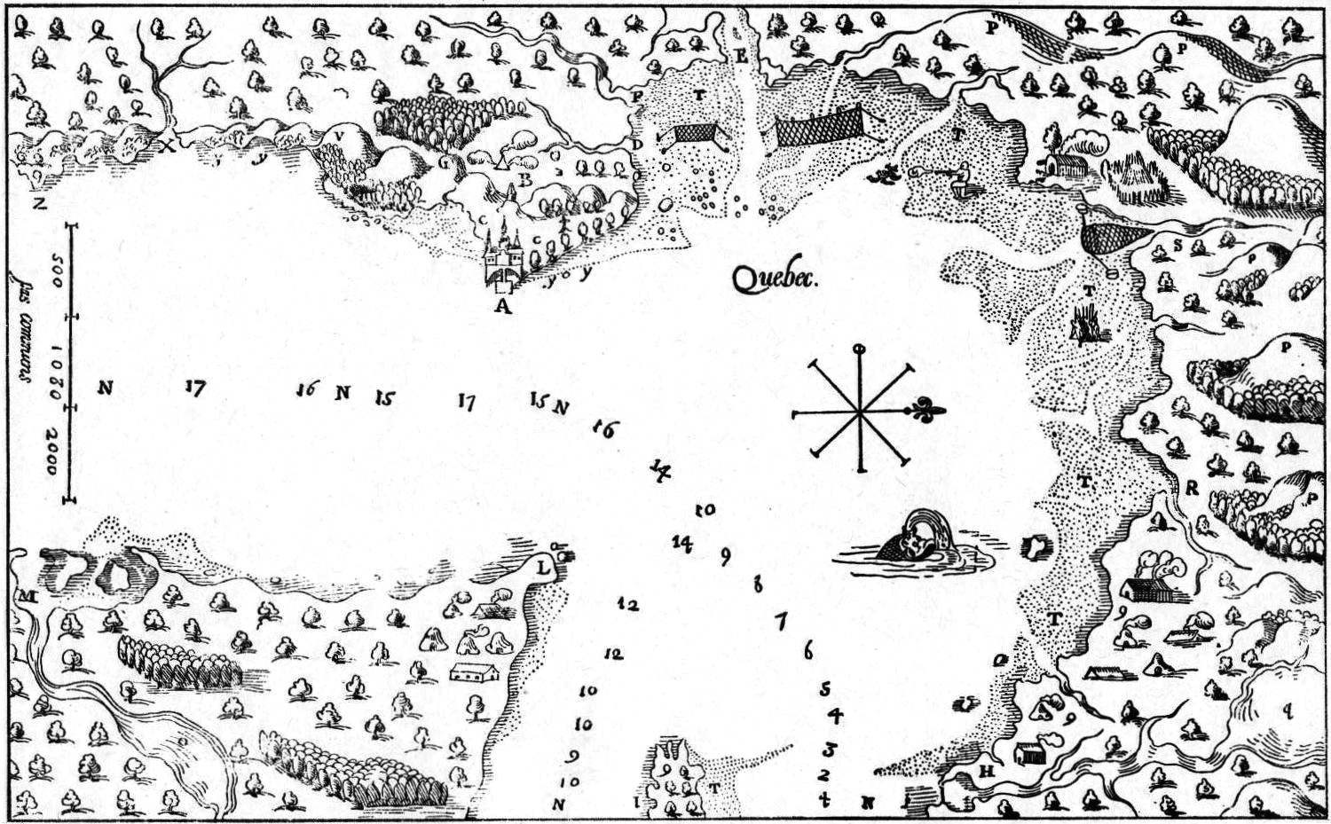 Map of Quebec region, by Champlain, 1608 The figures show the fathoms of water A The Site where the Settlement is buit. B Cleared Land where Wheat and other Grains are Sown. C The Gardens. D Small Stream flowing from among the Swamps E River where wintered Jacques Cartier, who then named it Ste. Croix, which was transferred 15 leages above Quebec. F Stream from the Marshes. G The Place where Hay was Collected for the Live Stock that had been brought hither. H The great Montmorency Falls which Descend from a Height of more than 25 Fathoms into the River. I End of the Island of Orleans. L Very Sharp Point on the Shore to the East of Quebec. M Boisterous River leading to the Etchemins. N The great River St. Lawrence. O Lake of the Boisterous River. P Mointains in the distance : Bay which I named New Biscay. Q Lake of the great Montmorency Falls. R Bear River. S Son-in-Law River. T Flats which are Covered at every Tide. V Du Gas Mountain very high on the Bank of the River. X Flowing Stream Suitable to Work every Kind of Mill. Y Gravel Bank where one finds quantities of Diamonds slightly better than those of Alençon. Z Diamond Point. 9 Place where the Savages Frequently Encamp.